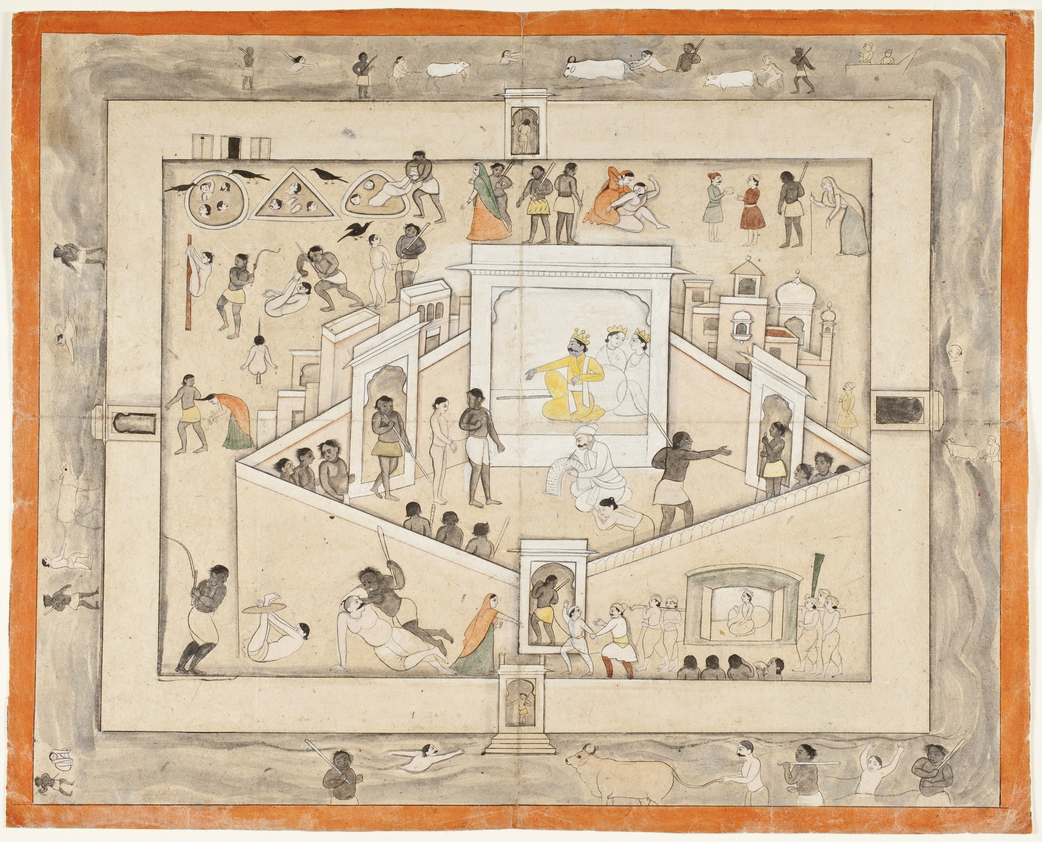 Gursahai (attributed to), The Court of Yama, God of Death, ca. 1800, Guler, LACMA